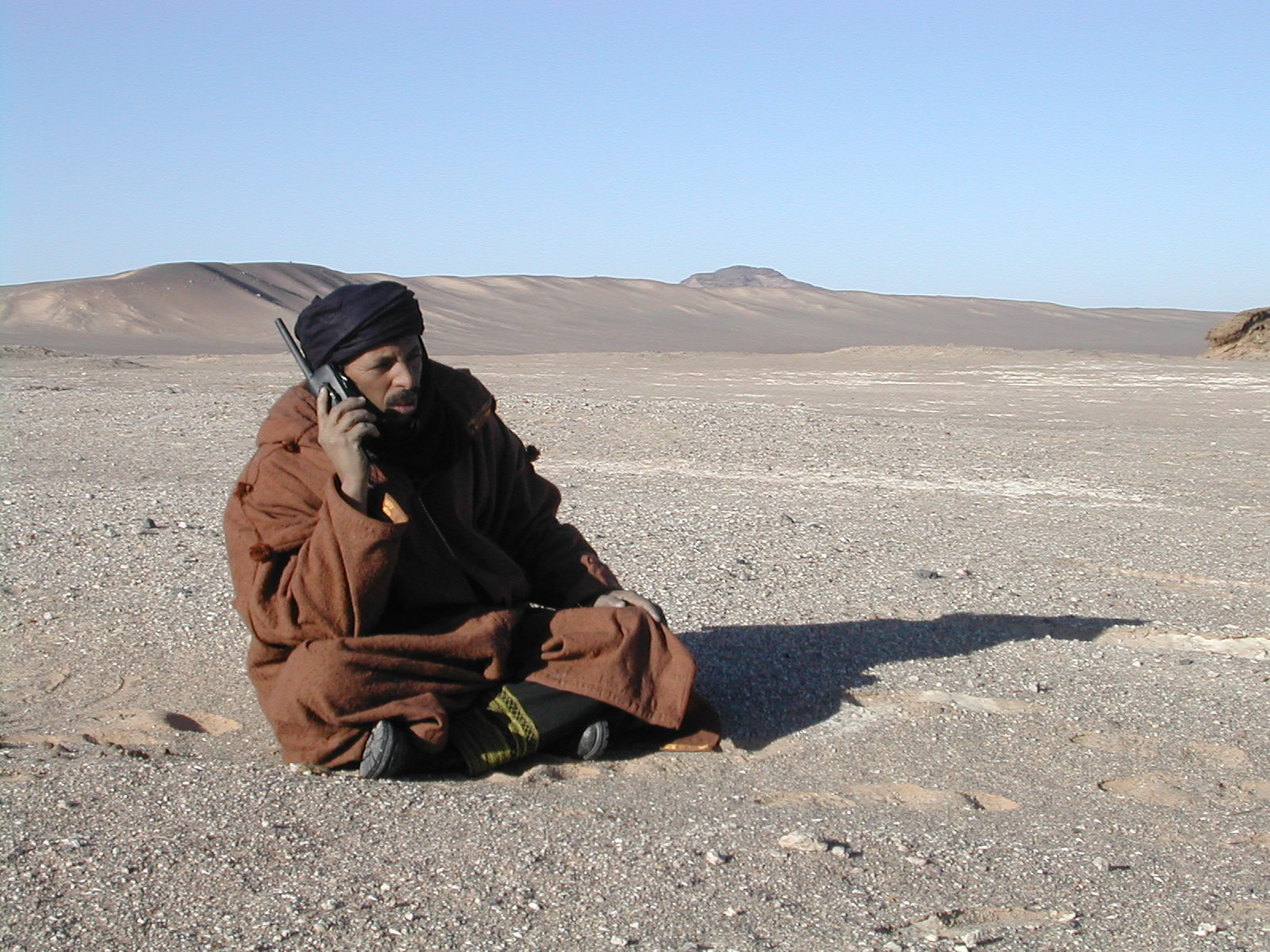 Thuraya phone in Algeria